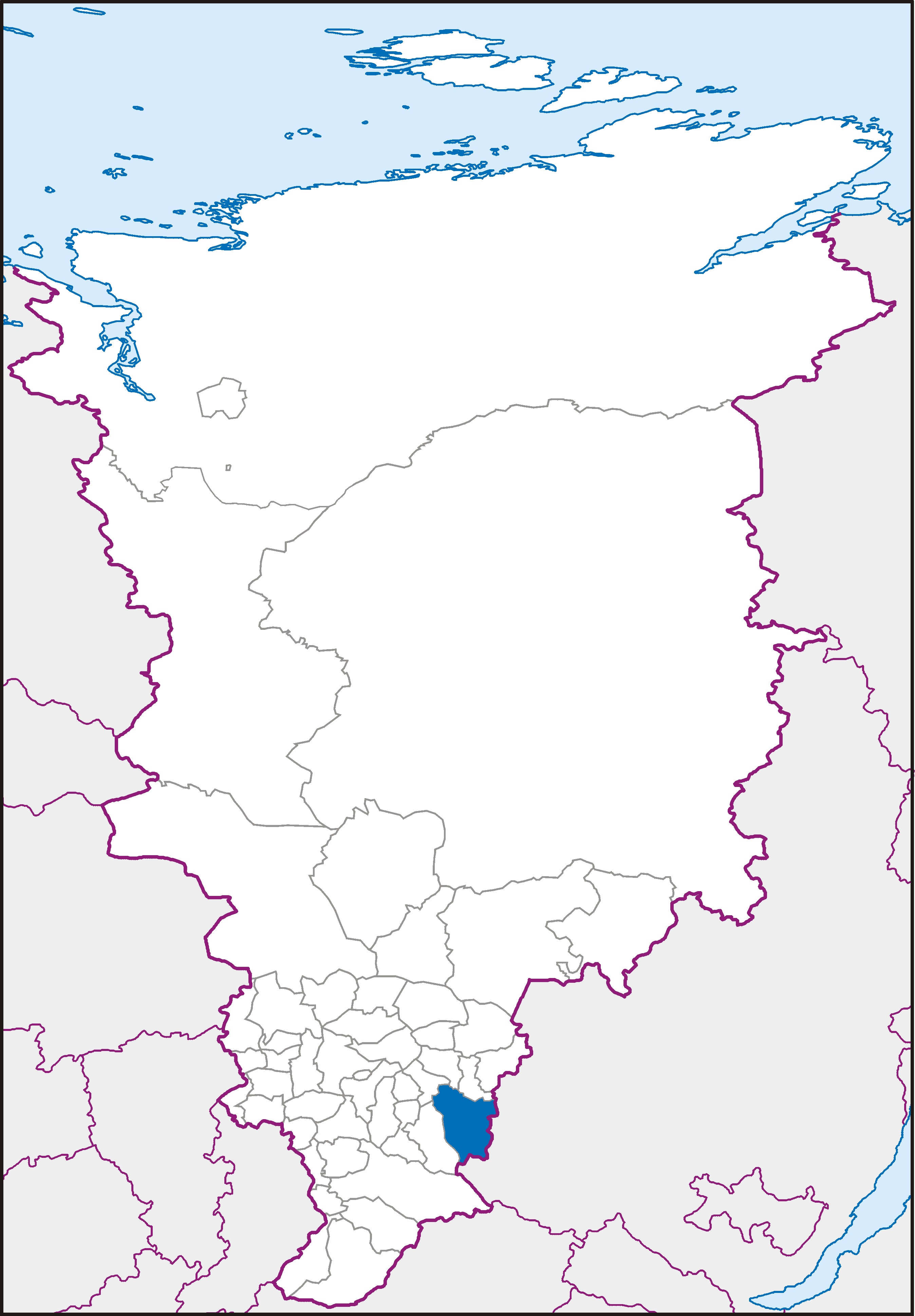 Map of Krasnoyarsk Krai in Albers Equal-Area Conic projection (Central Meridian = 95° E)